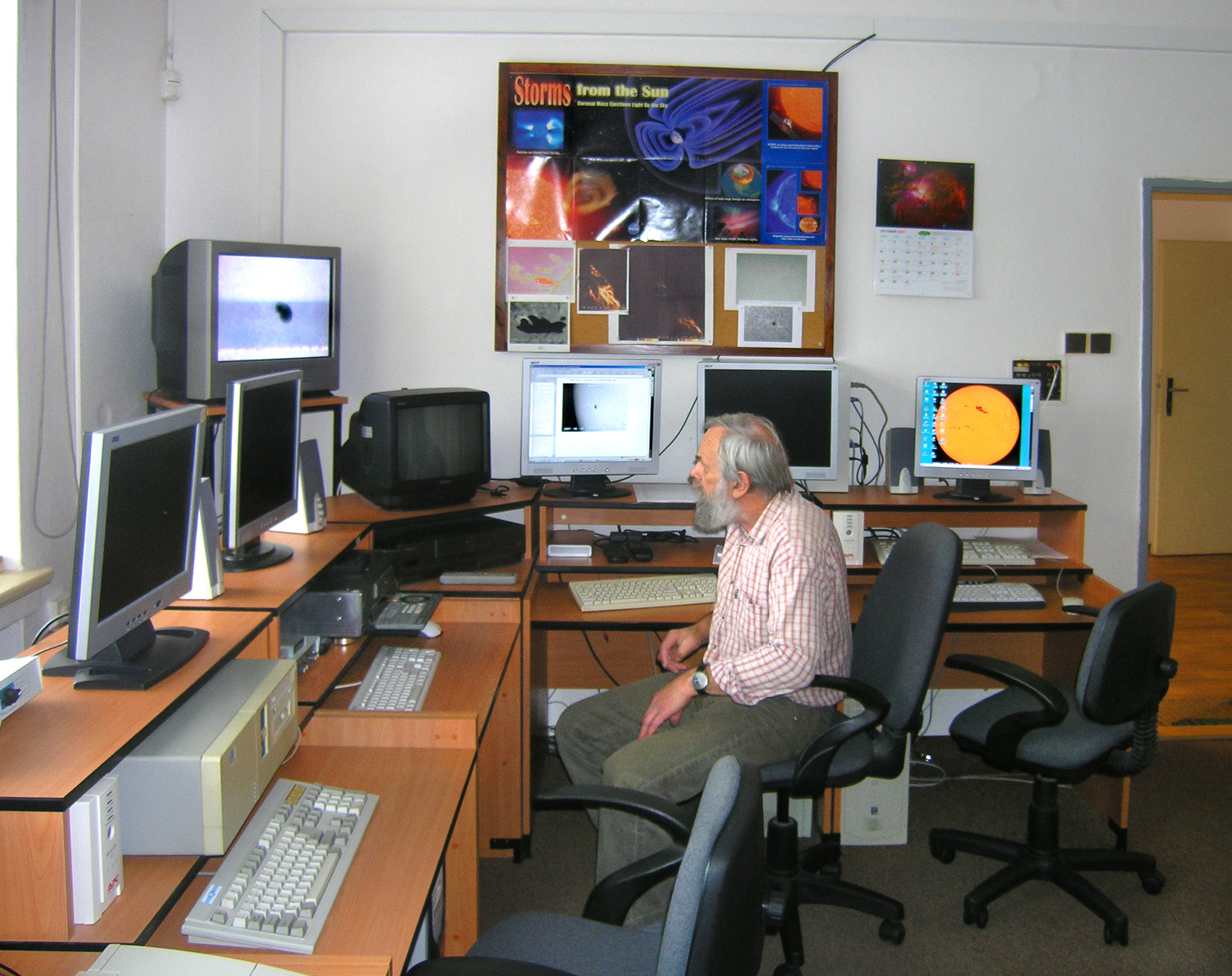 Solar Activity Monitoring and Forecasting at the Czech Astronomical Institute in Ondřejov